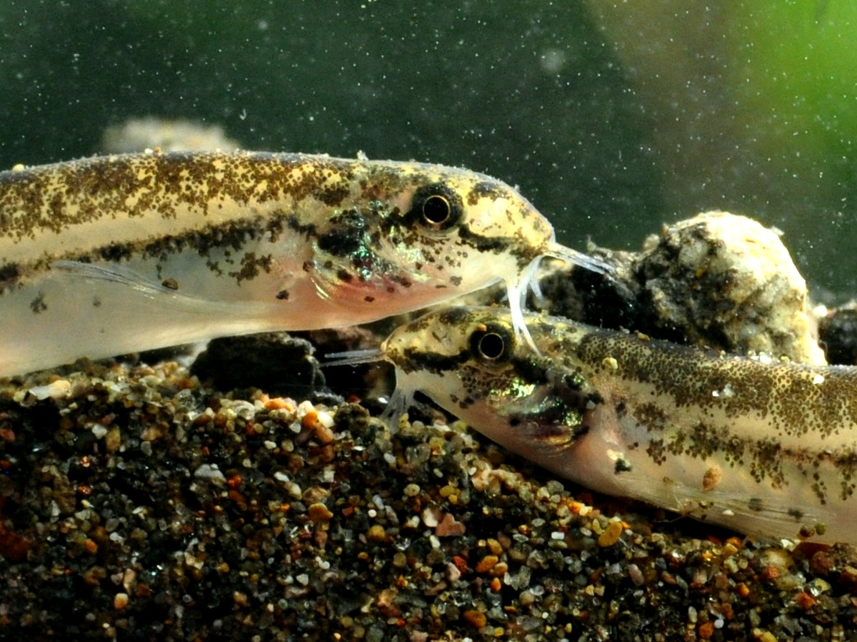 Two individual of Lepidocephalichthys hasselti, ca 29 mm & 30 mm SL. From Banyumas, Central Java, Indonesia.